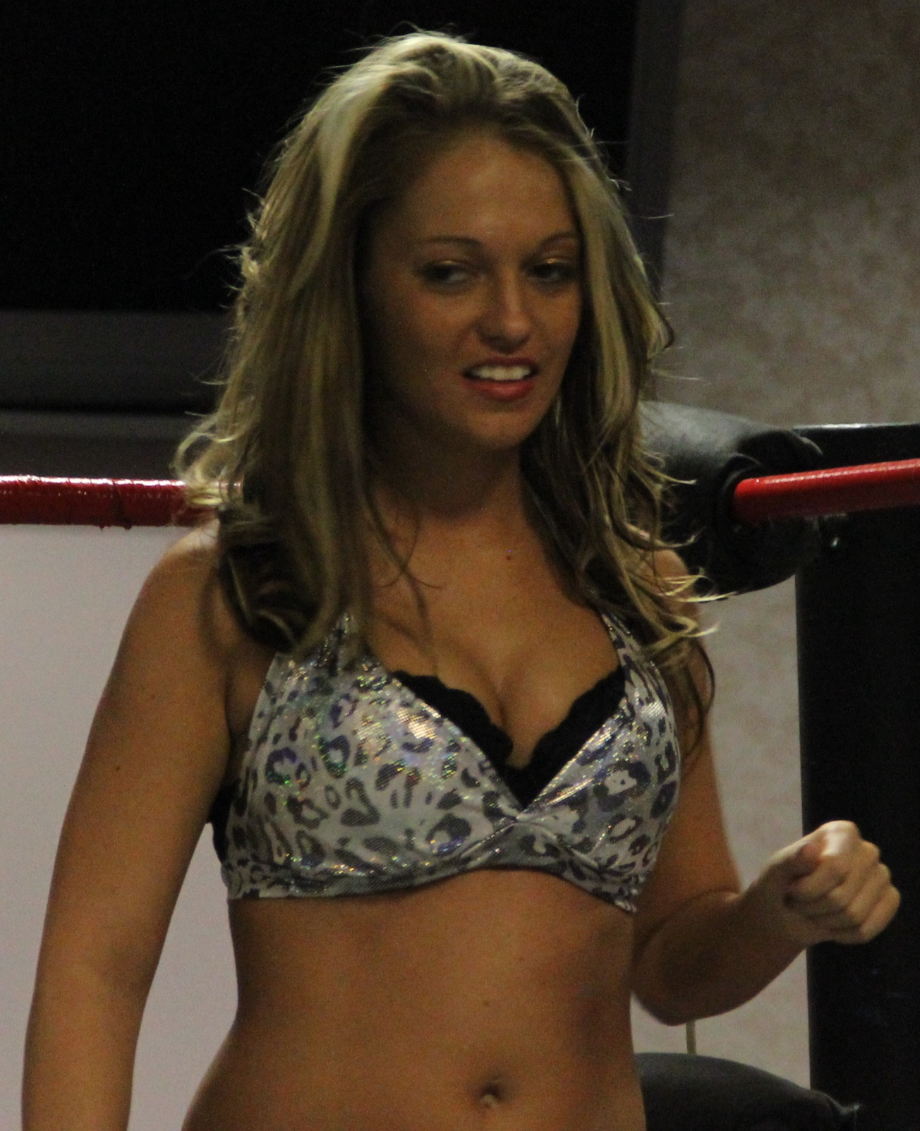 Professional wrestler Alexxis Nevaeh at an LPW event.